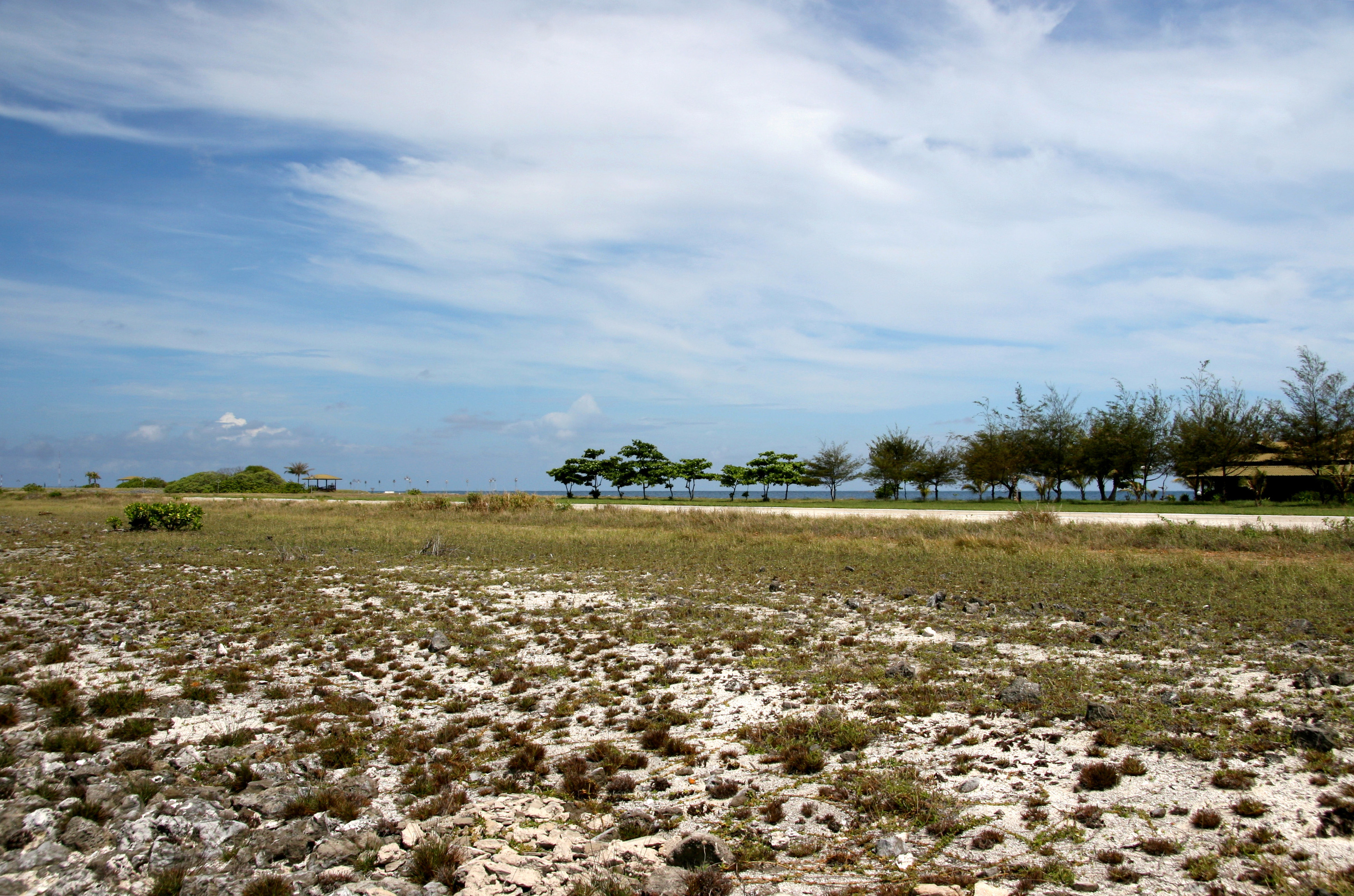 Swallow Reef (Pulau Layang-Layang) in Spratly Islands, South China Sea